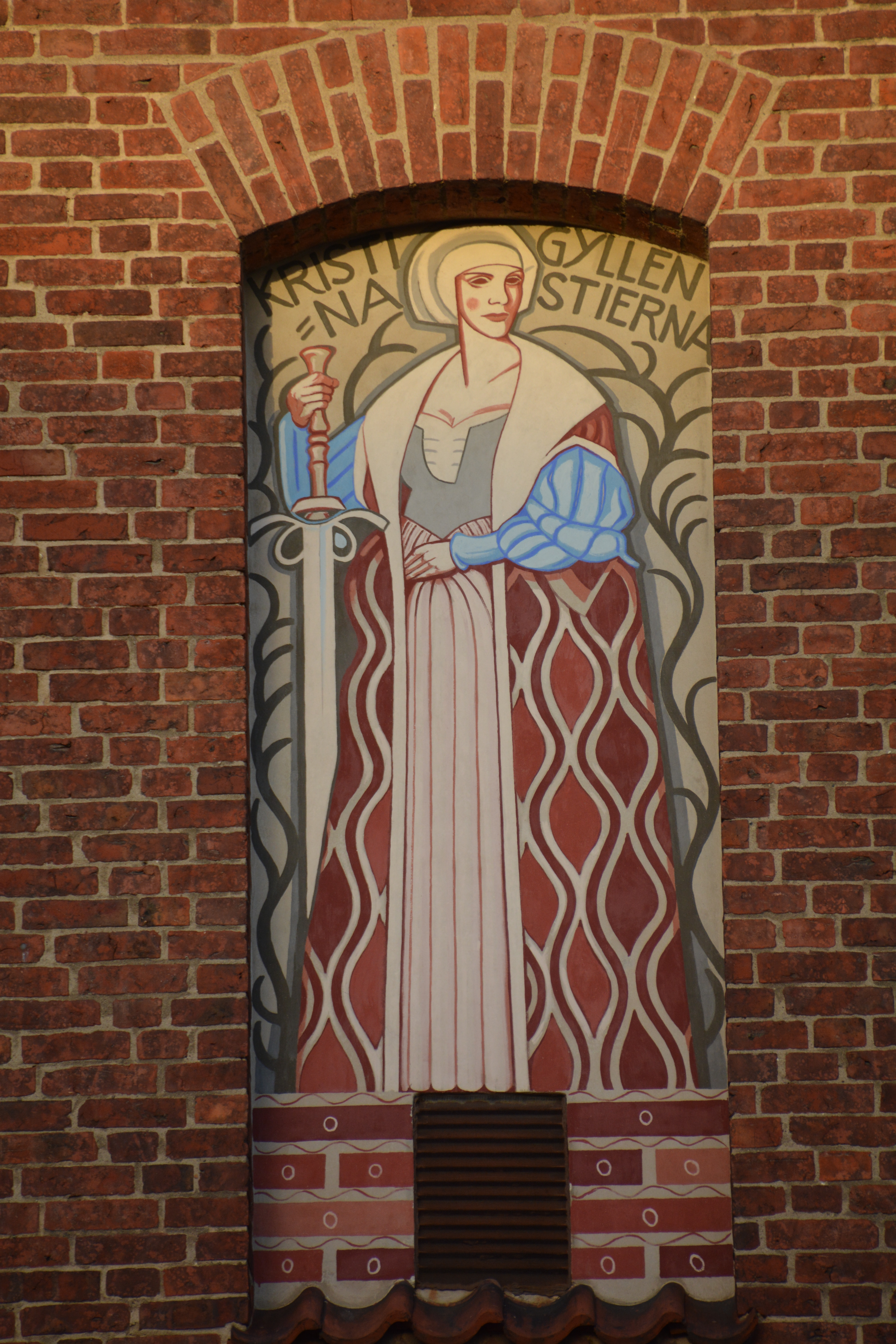 Olle Hjortzberg: Kristina Gyllenstierna på fasaden till Lindebergska skolan I Lund, al fresco